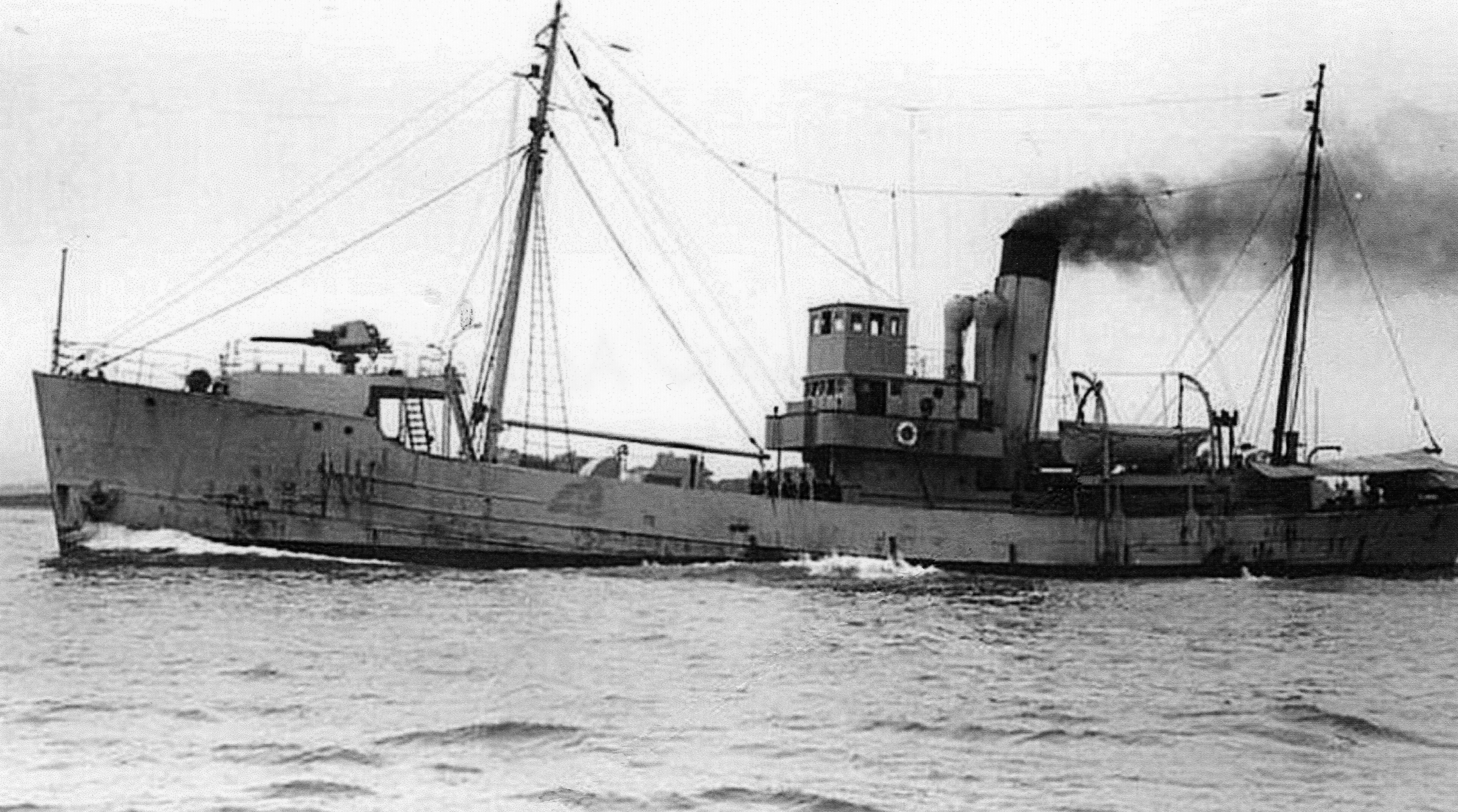 Postcard of HM Trawler Agate of the Royal Navy. Comment : She is armed with a QF 4-inch Mk IV gun at the bow.